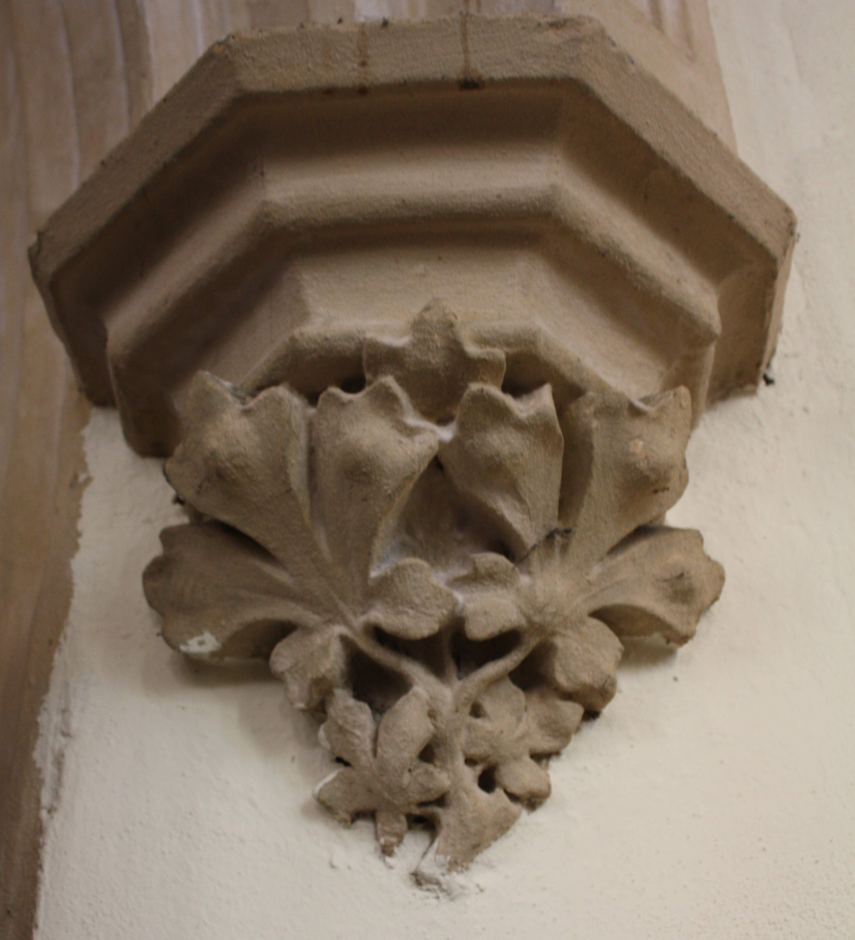 This photo of Lower Silesian Voivodeship was taken during Wikiexpedition 2013 set up by Wikimedia Polska Association. You can see all photographs in category Wikiekspedycja 2013. English | Polski | +/−